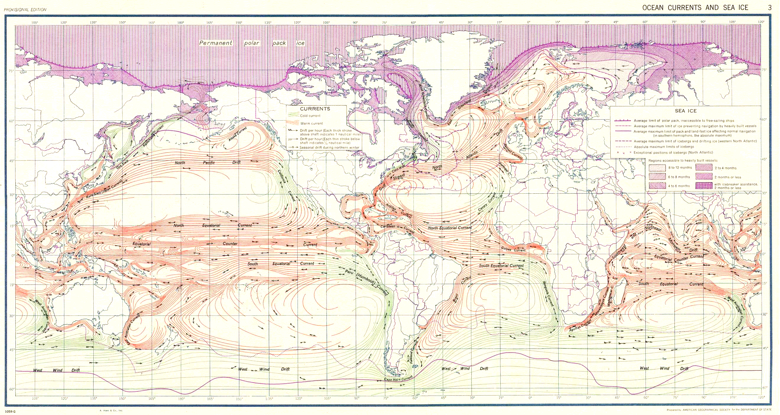 Modification of by User:Dreg743 to show only the ocean currents.